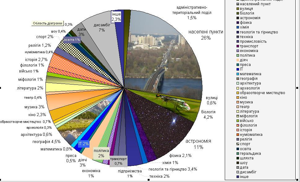 analysis of Ukrainian wikipedia by theme